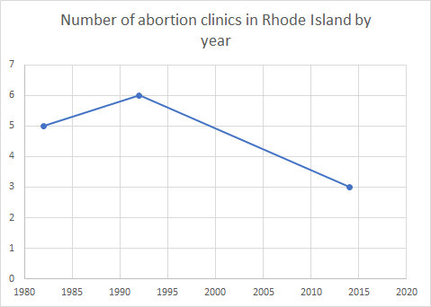 Number of abortion clinics in Rhode Island by year. Data is from articles linked at